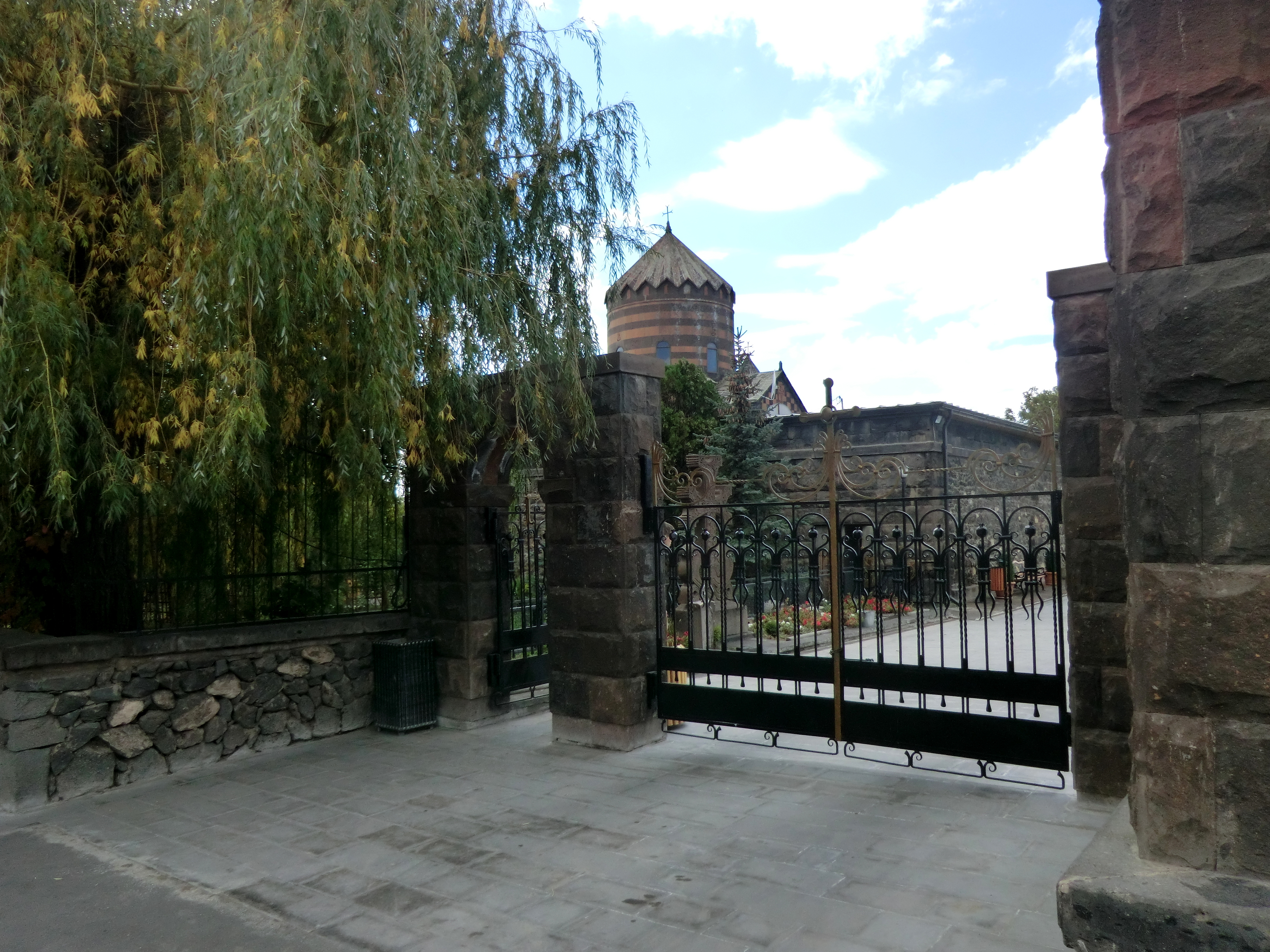 Saint Gevorg Monastery of Mughni.